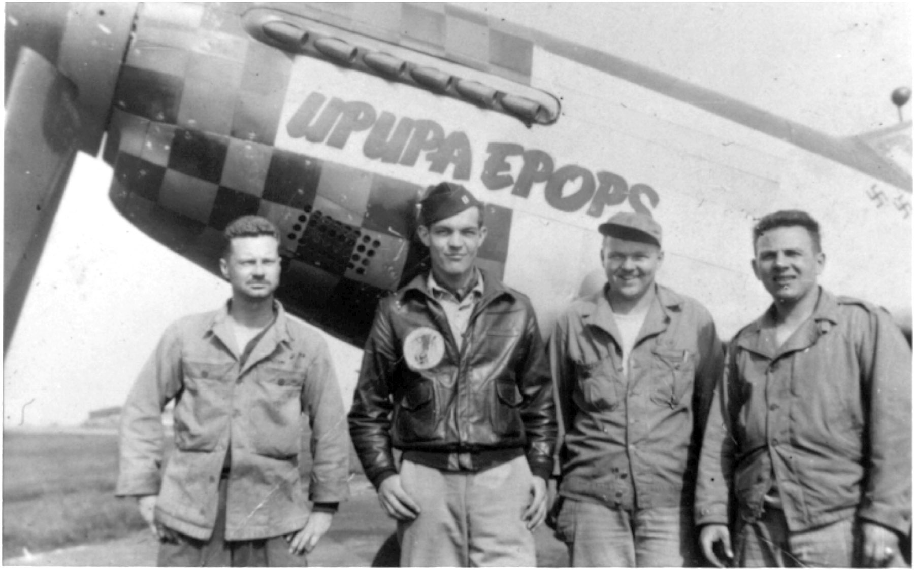 From right to left: Kermit M. Knutson, Crew Chief, Harrison Bruce "Bud" Tordoff, pilot; Bill Jopke, Assistant Crew Chief; and Ervin Wolf, Armorer. These men from the 352nd Fighter Squadron are posing in front of Tordoff's P-51 Mustang, Upupa epops.